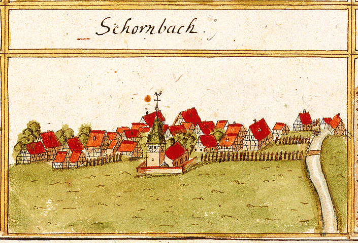 View of Schornbach, Schorndorf, from the forest register books created by Andreas Kieser